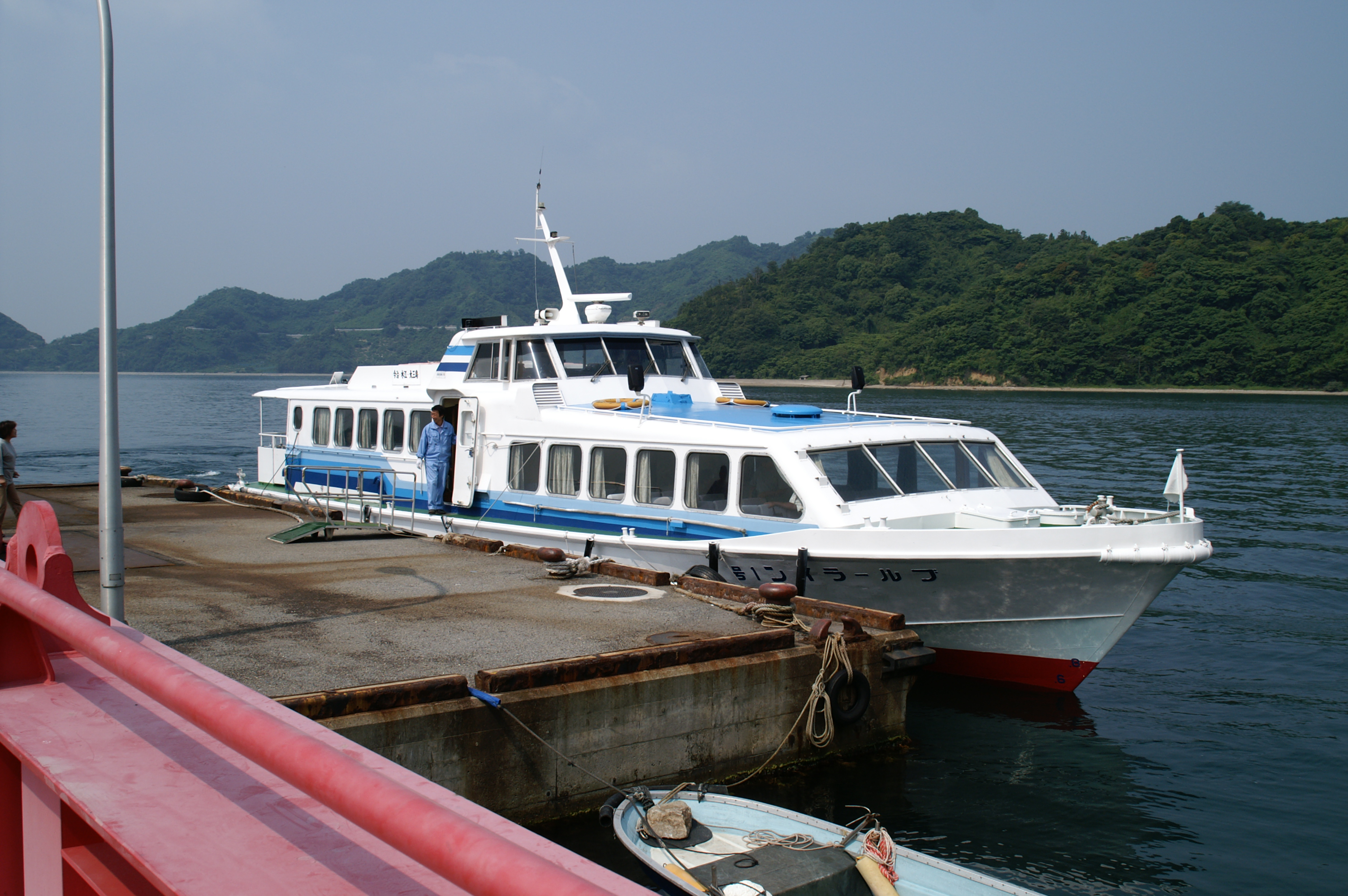 Munakata Port in Imabari, Ehime pref., Japan.